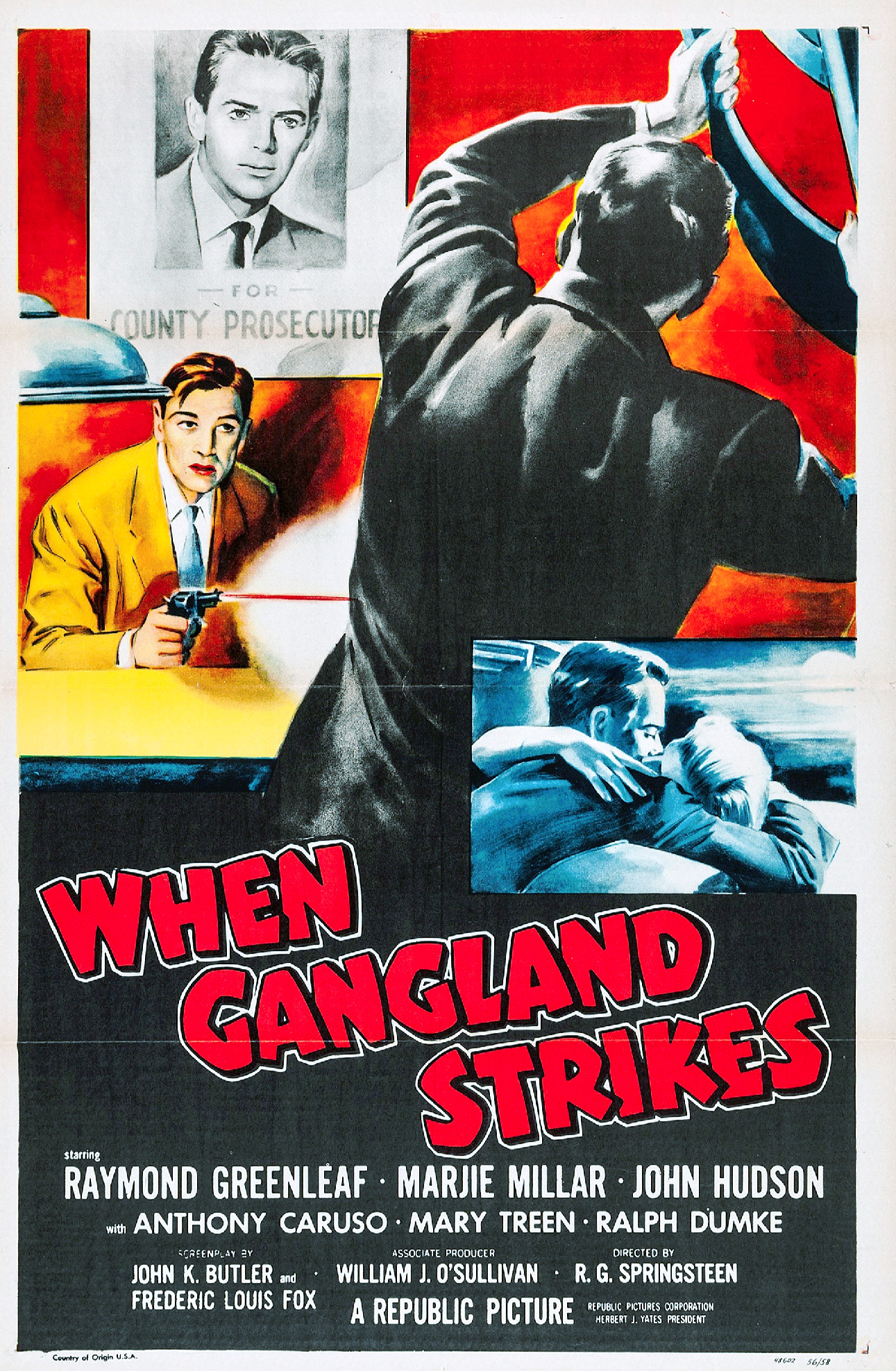 Poster for the 1956 film When Gangland Strikes. There are no copyright marks. At bottom is Country of origin USA and 48602 56/58.